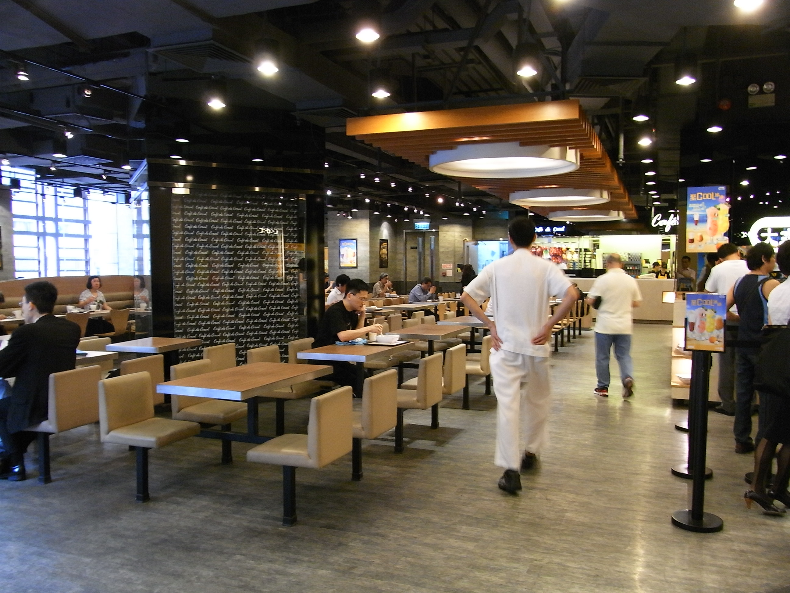 新紀元廣場, Grand Millennium Plaza, Sheung Wan, Hong Kong